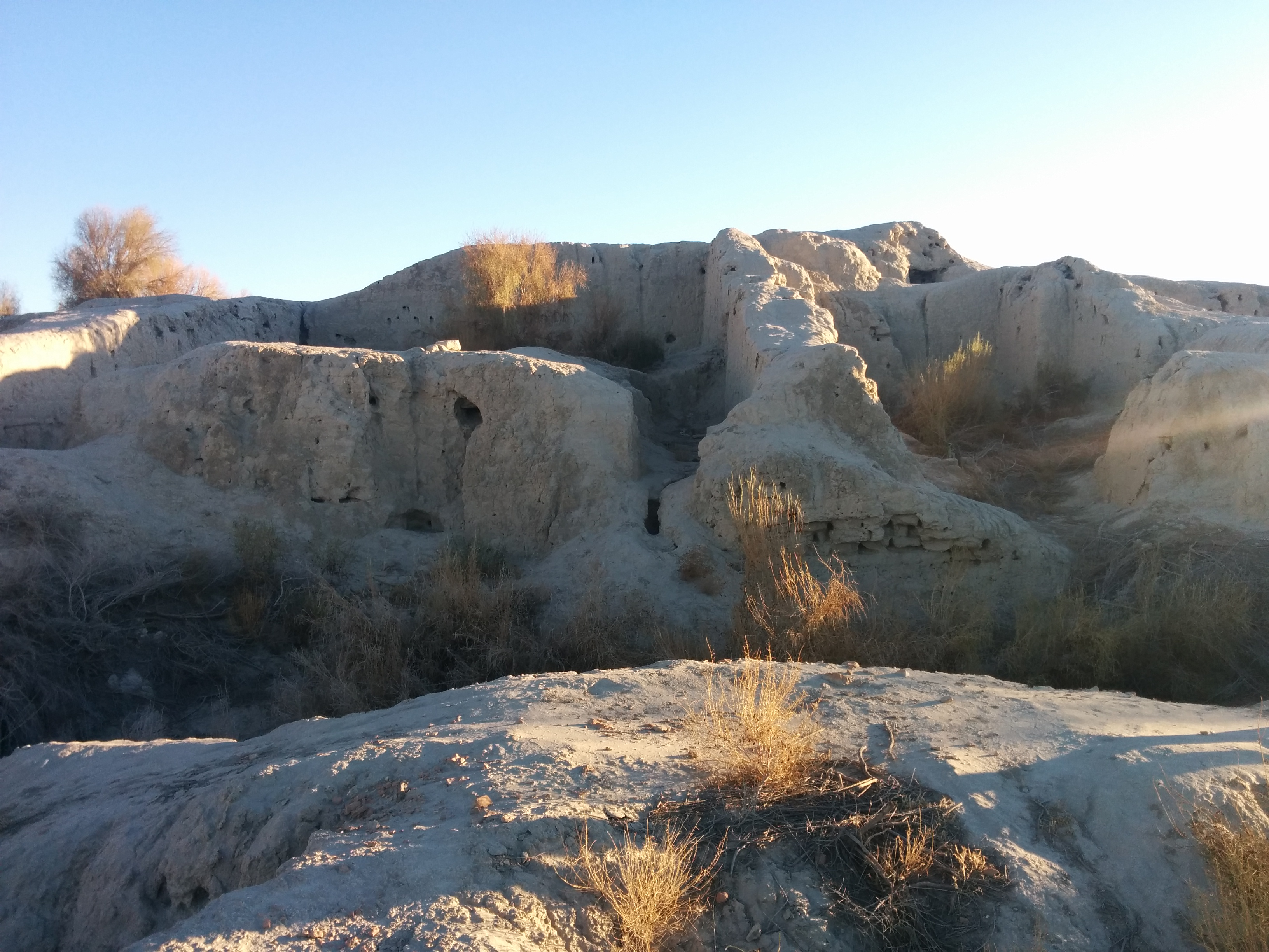 Varakhsha ruins